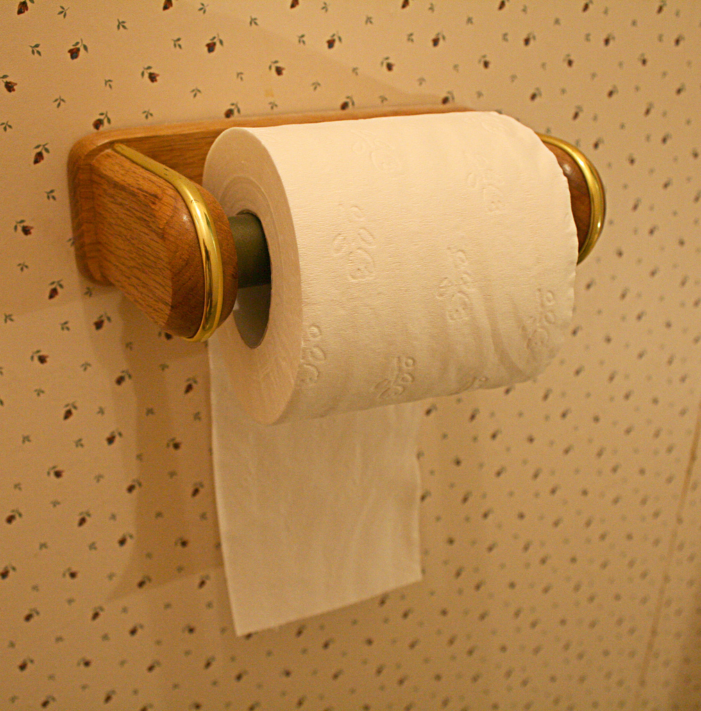 Just what you (hopefully) see everyday when you need it.